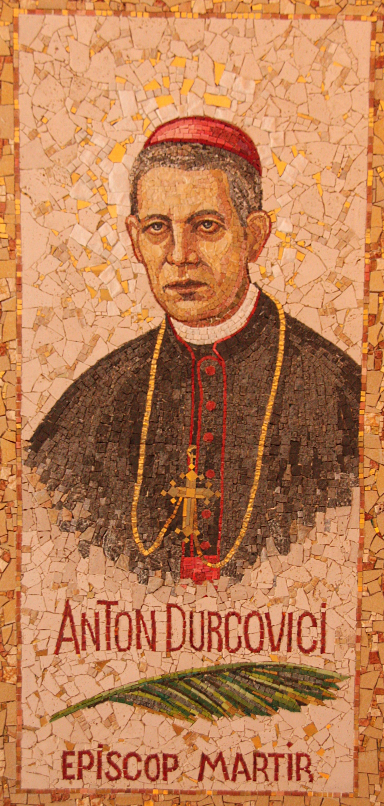 portrait (moasaic) of bishop Anton Durcovici, memorial chapel, new roman catholic cathedral of Iași